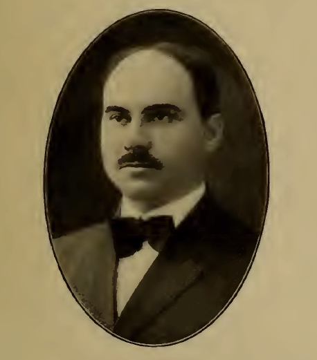 Joseph Menchen in around 1913, aged about 34